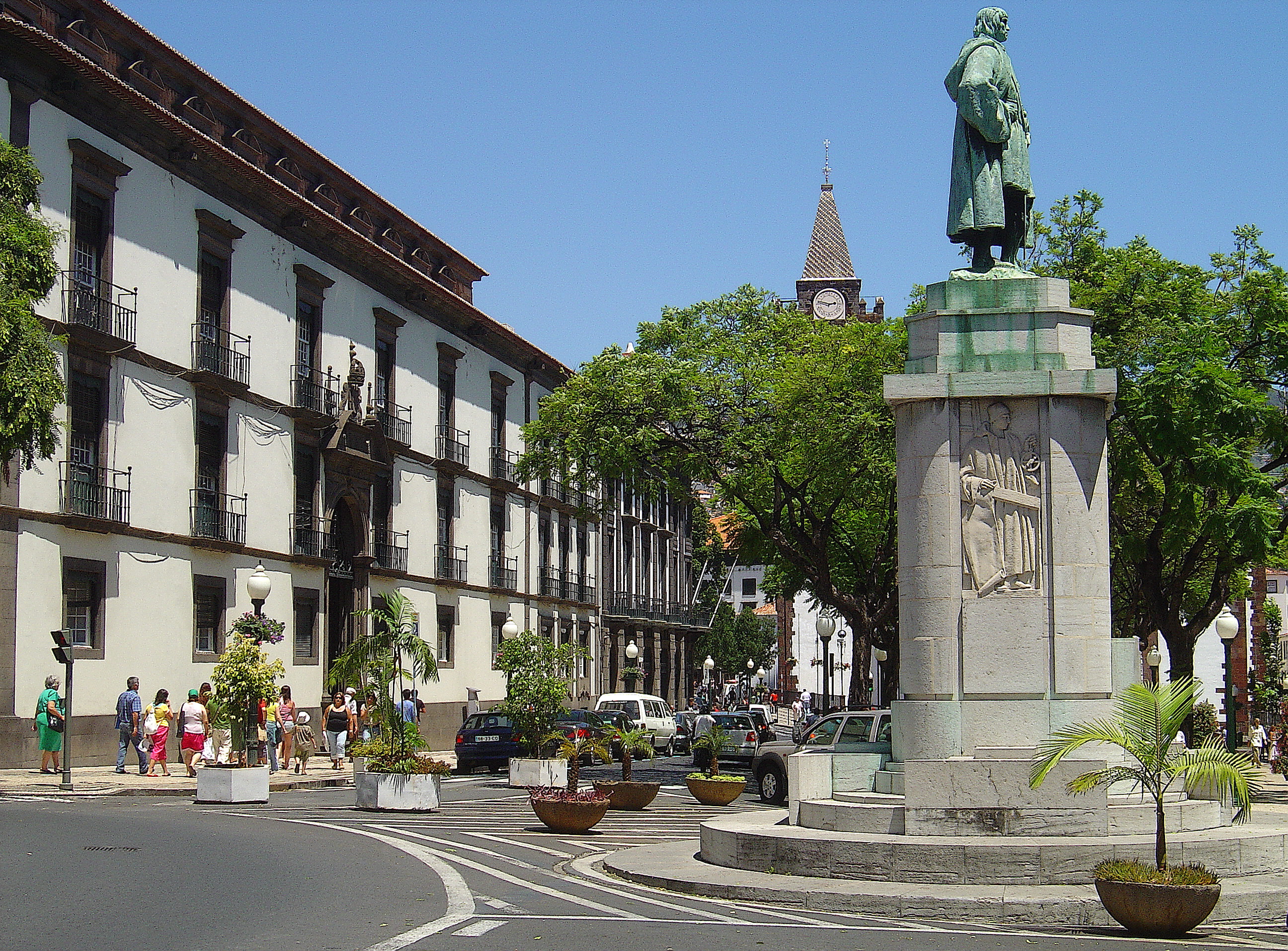 See where this picture was taken. [?]